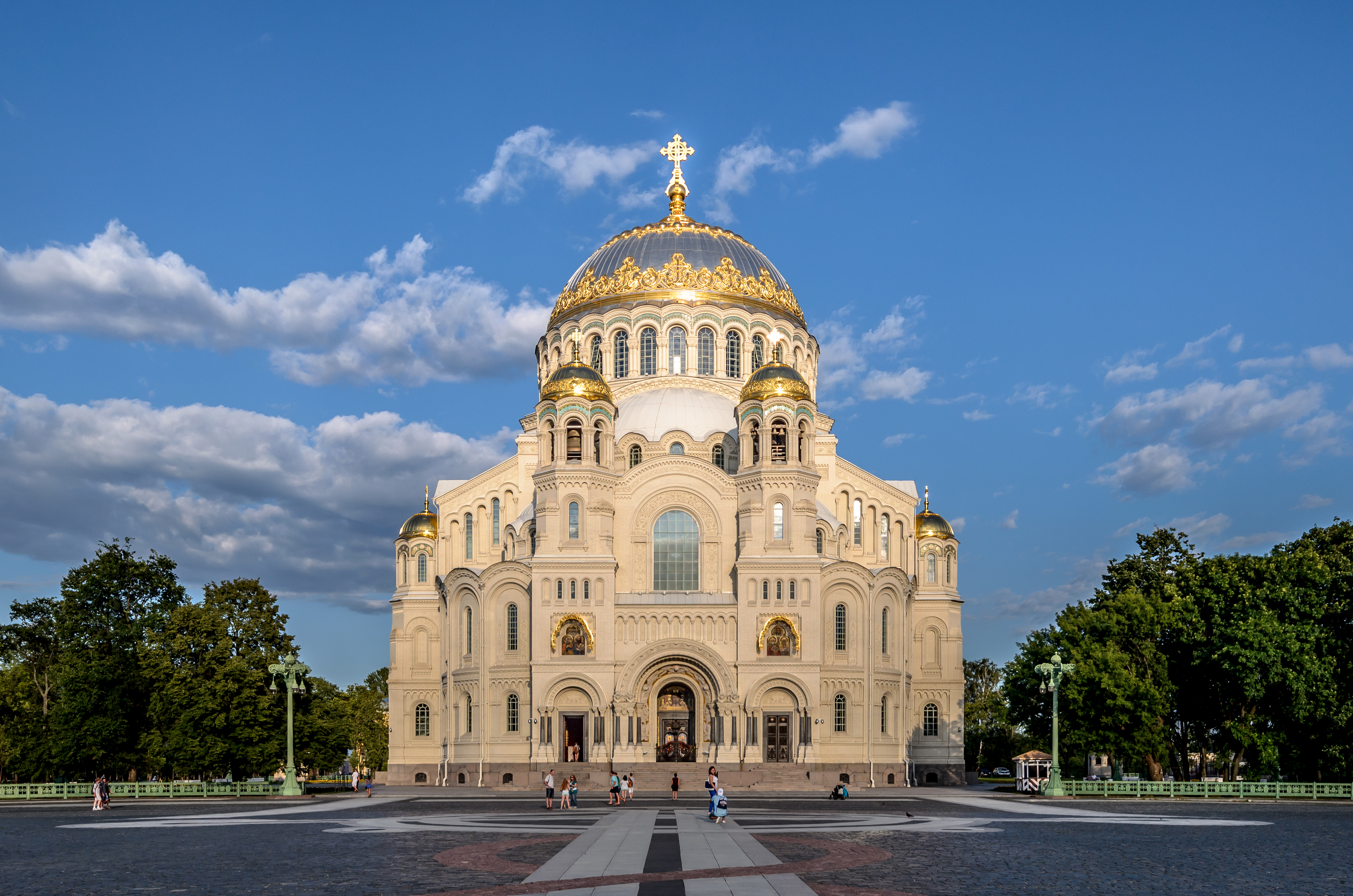 Naval Cathedral of Saint Nicholas in Kronstadt. Built in 1903—1913.